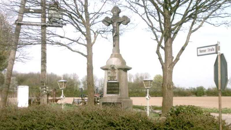 Wayside cross in Bergerstraße, Viersen, Germany.